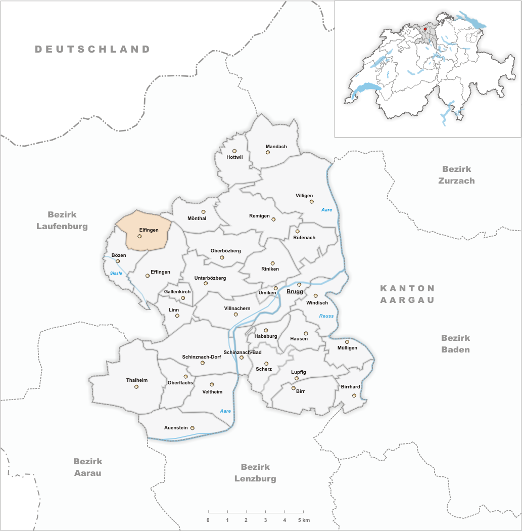 Municipality Elfingen